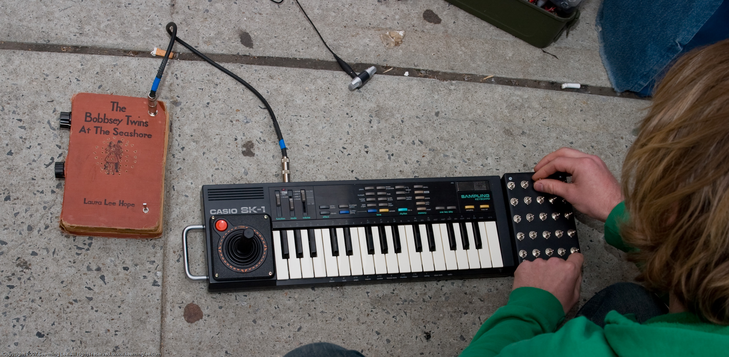 Bent Festival 2007 event photographs at New York City. Press Coverage Wired Magazine: Bent-Circuit Fest Tours Cross-Country SML Thank You I would like to thank Miguel Hernandez (Flickr ) for telling me about this event. It was AWESOME! Related SML Flickr Sets Bent Fest 2007 / SML (Set) Related SML Flickr Tags BentFest Music SML Copyright Notice Copyright 2007 See-ming Lee. All rights reserved.